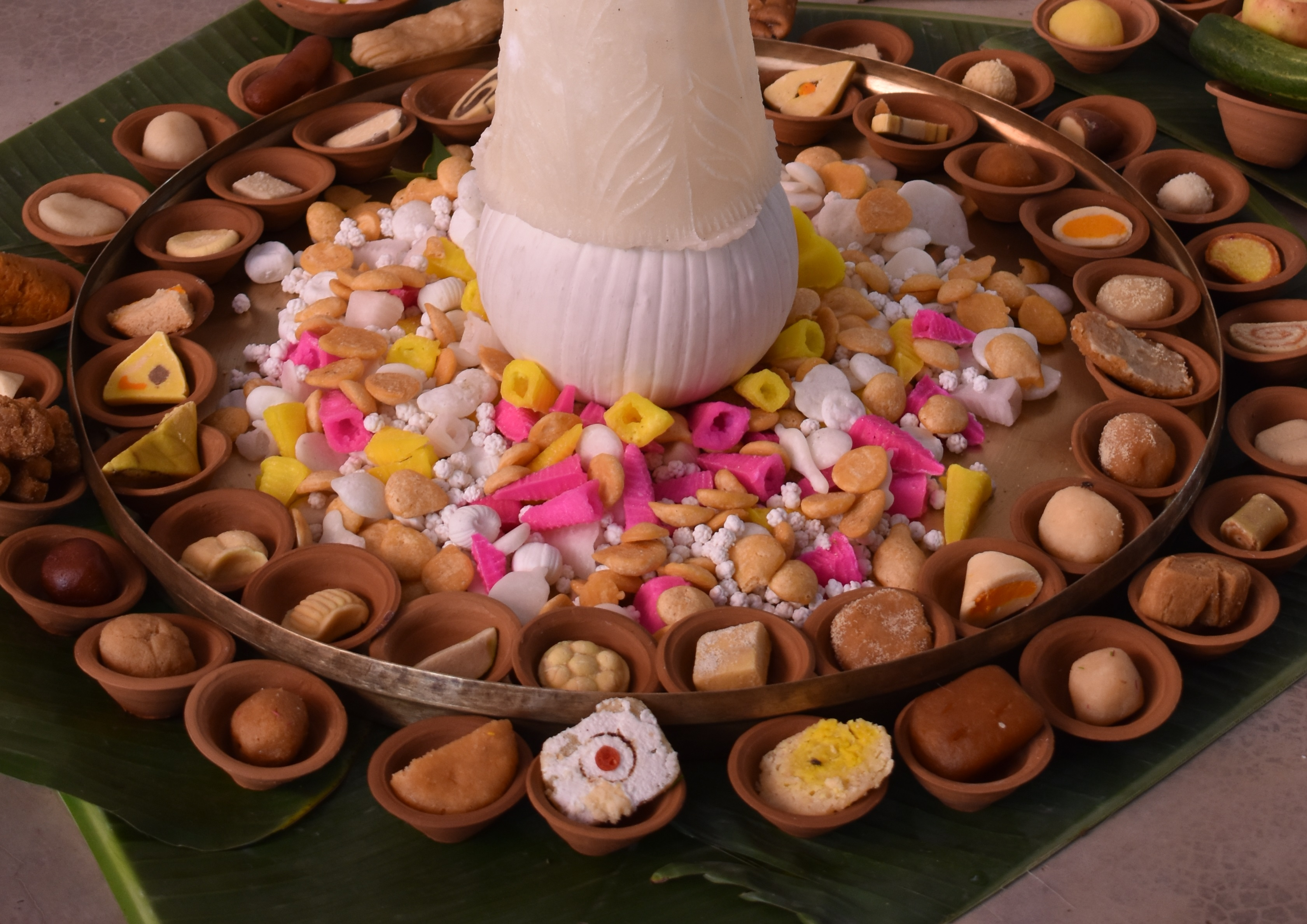 Sweets offered to God (in Nabadwip Shakta Ras Yatra)